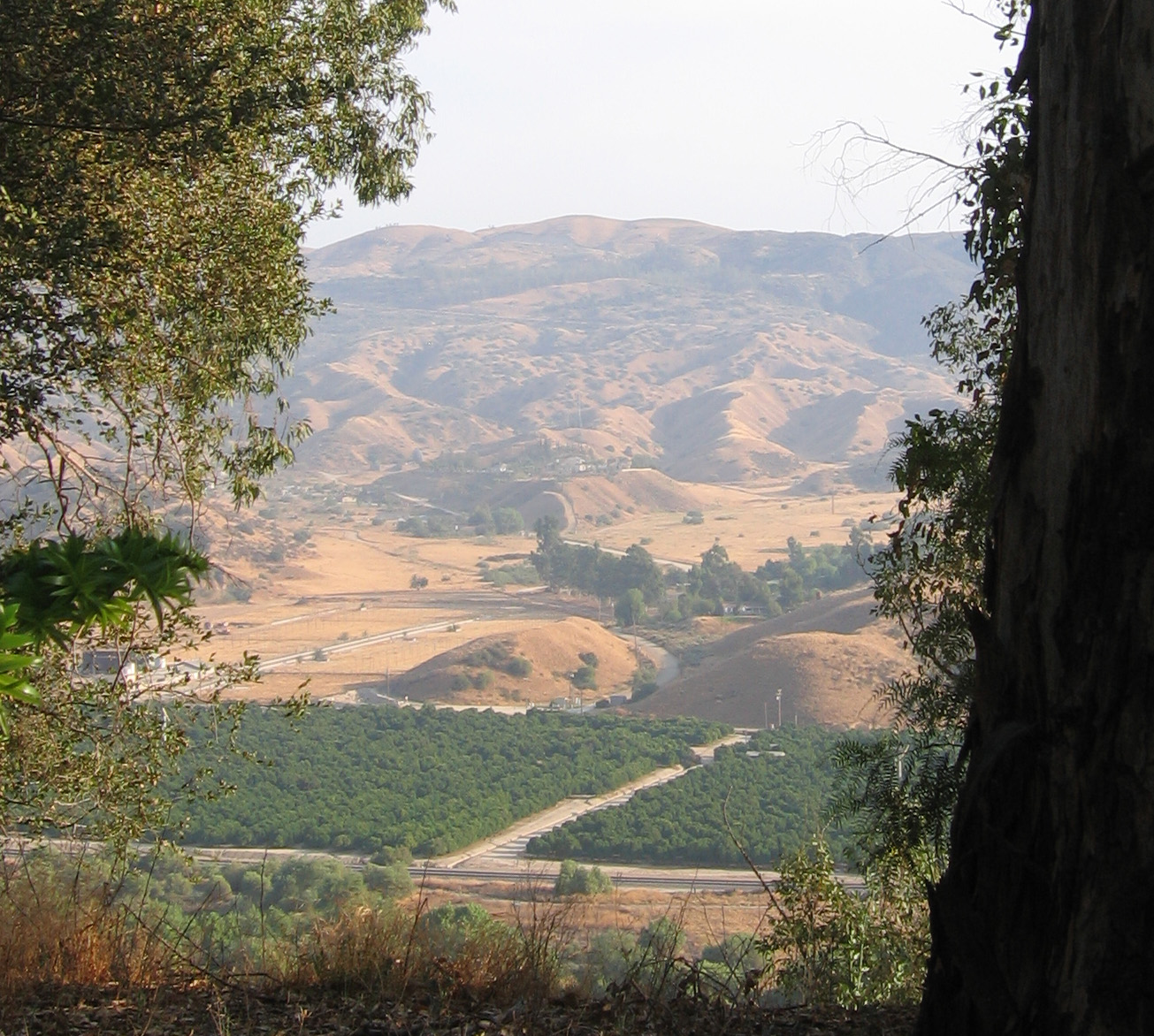 jack and i were invited to a party by our friend beka. this is the vista near her apt.